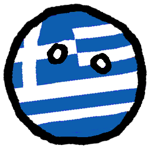 Grechiaball.